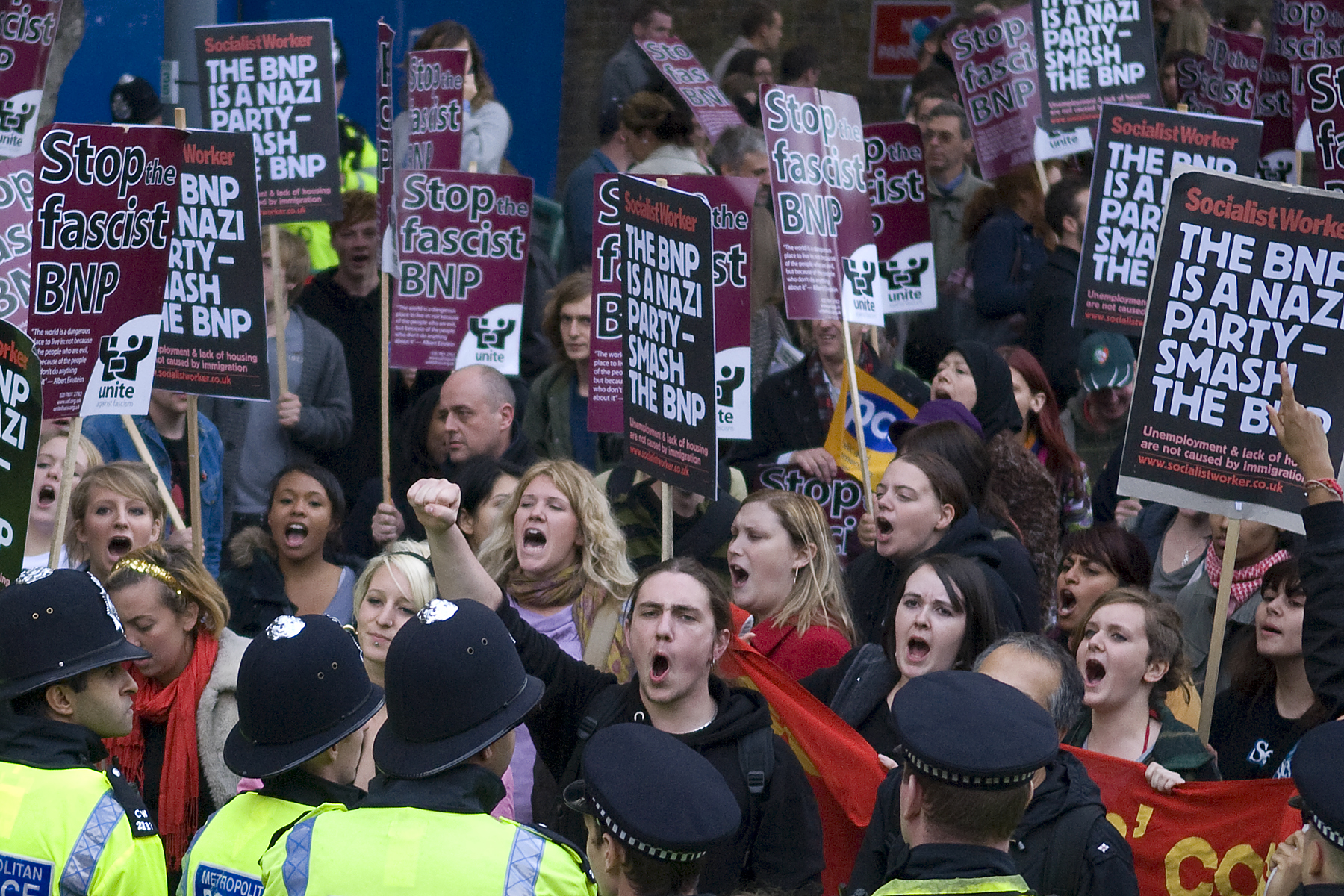 Demonstrators make their feelings clear about the BBC's decision to allow Nick Griffin to appear on Question Time. See Question Time British National Party controversy